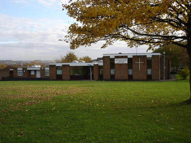 Bestwood Park Church